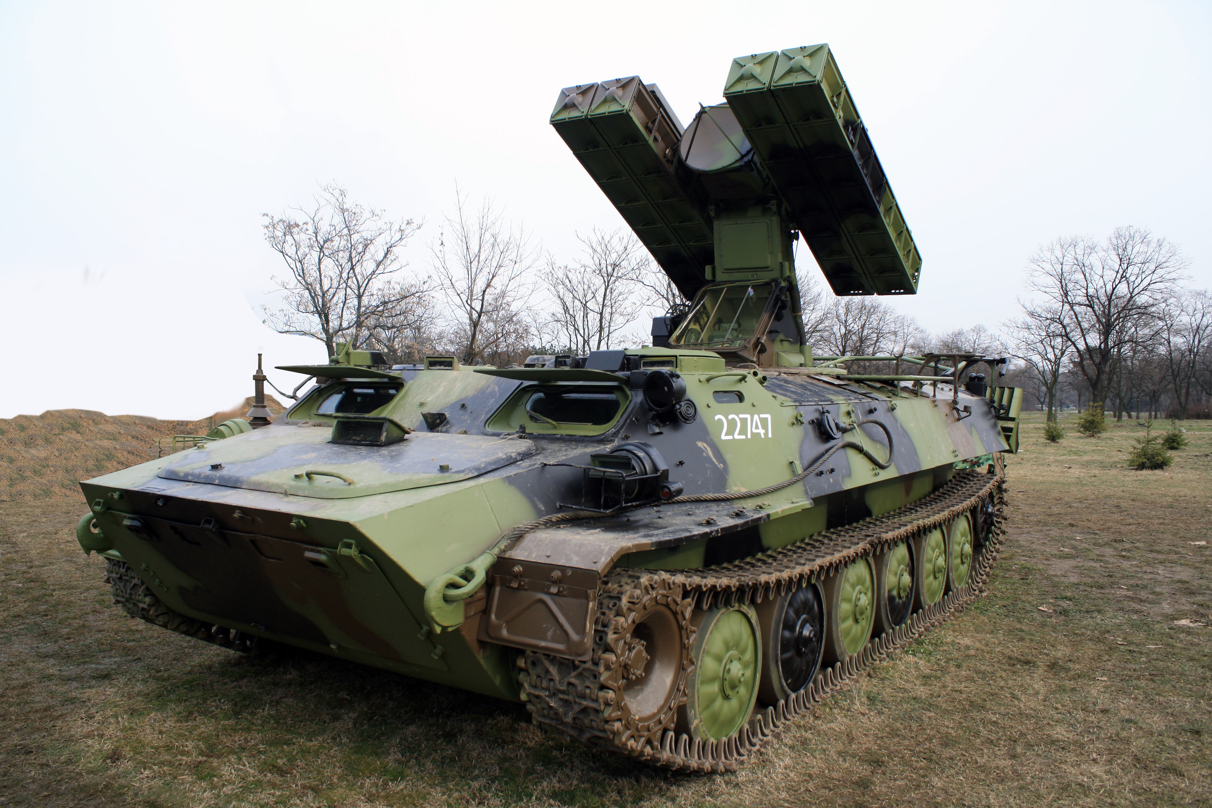 Strela 10